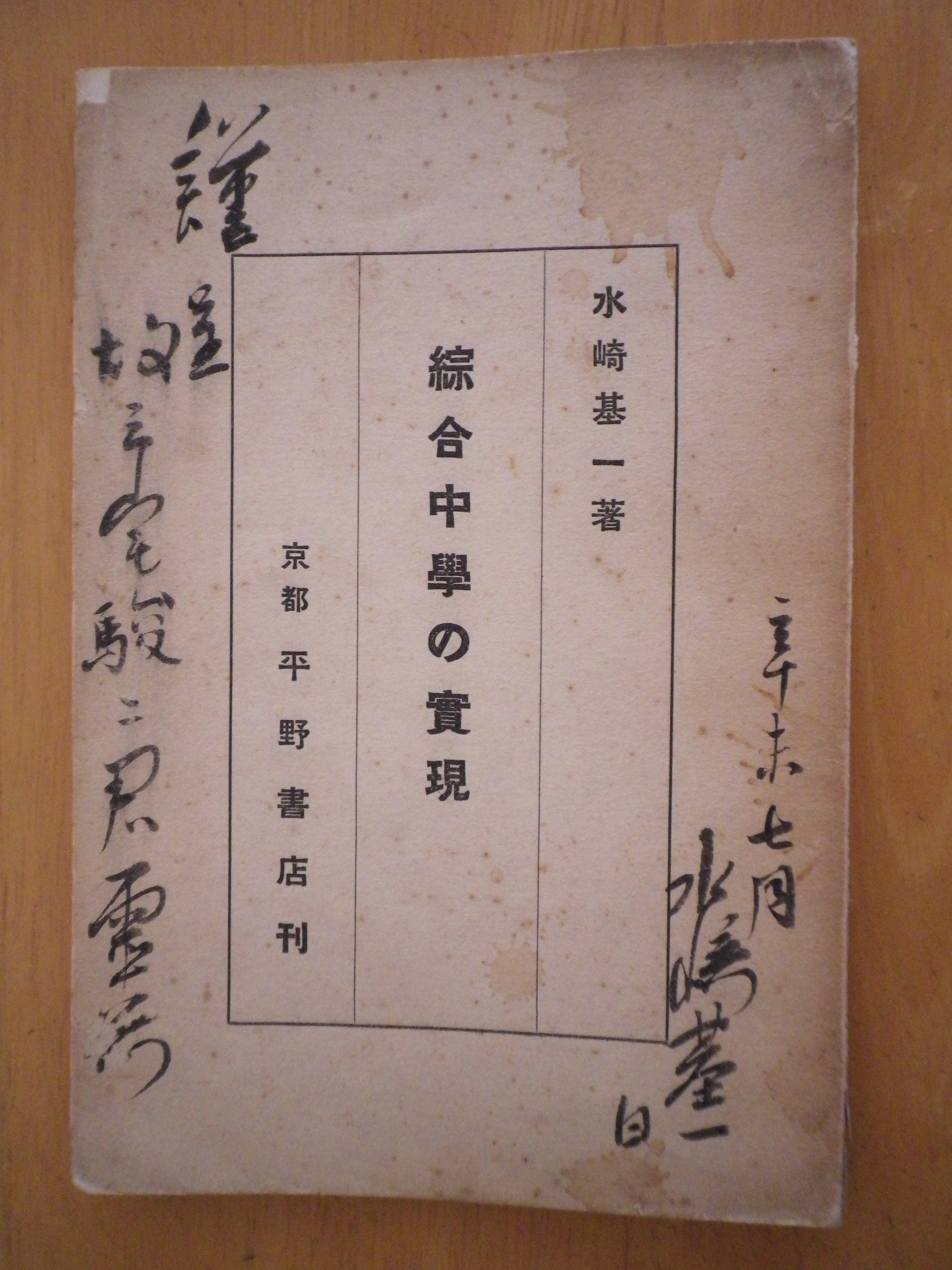 Motoichi Mizusaki, Sogo chugaku no jitsugen ("Realisation of general secondary school"), Kyoto, 1931